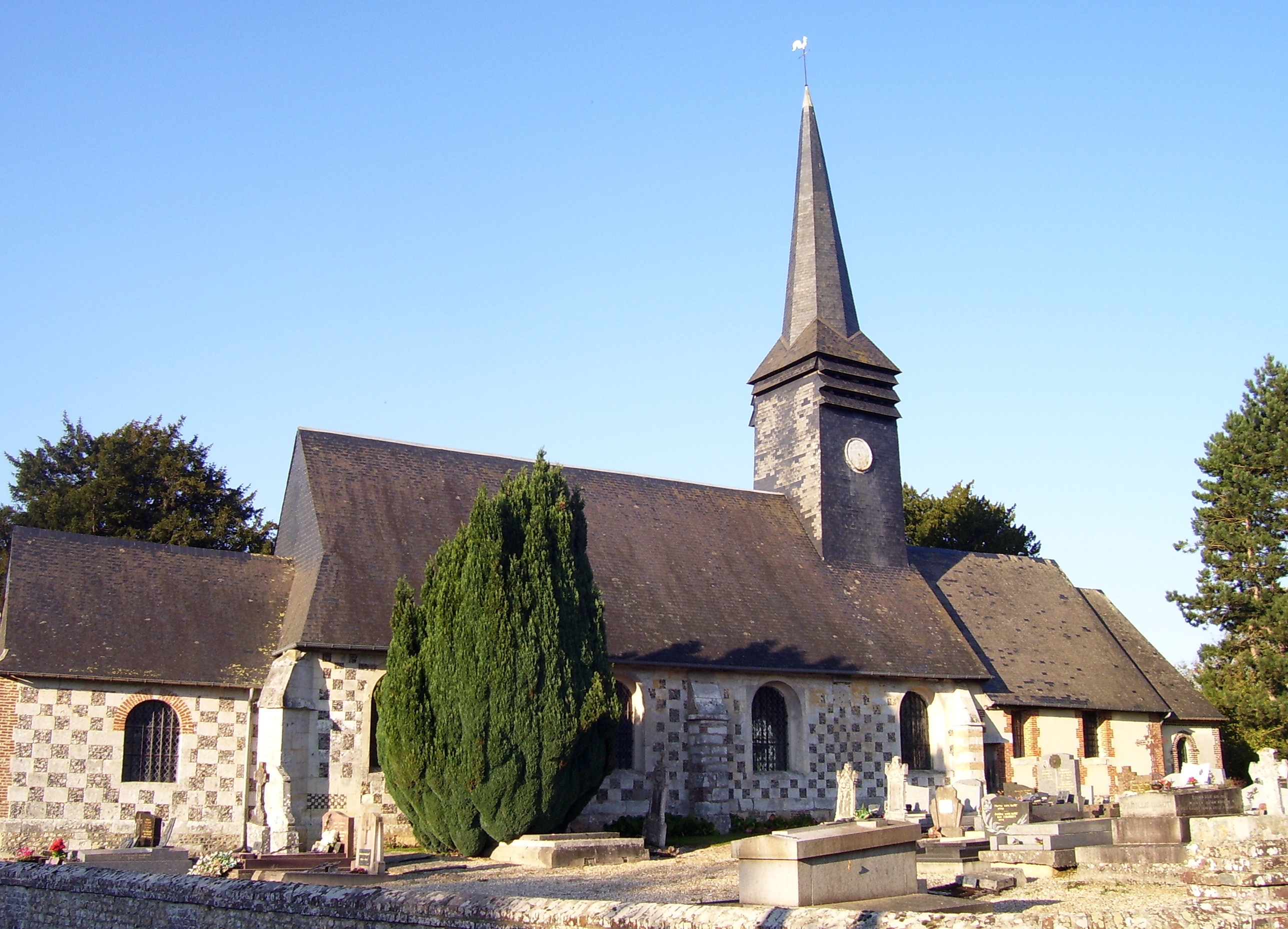 Church Saint-Georges of Saint-Georges-du-Mesnil (Eure, Upper Normandy) France.